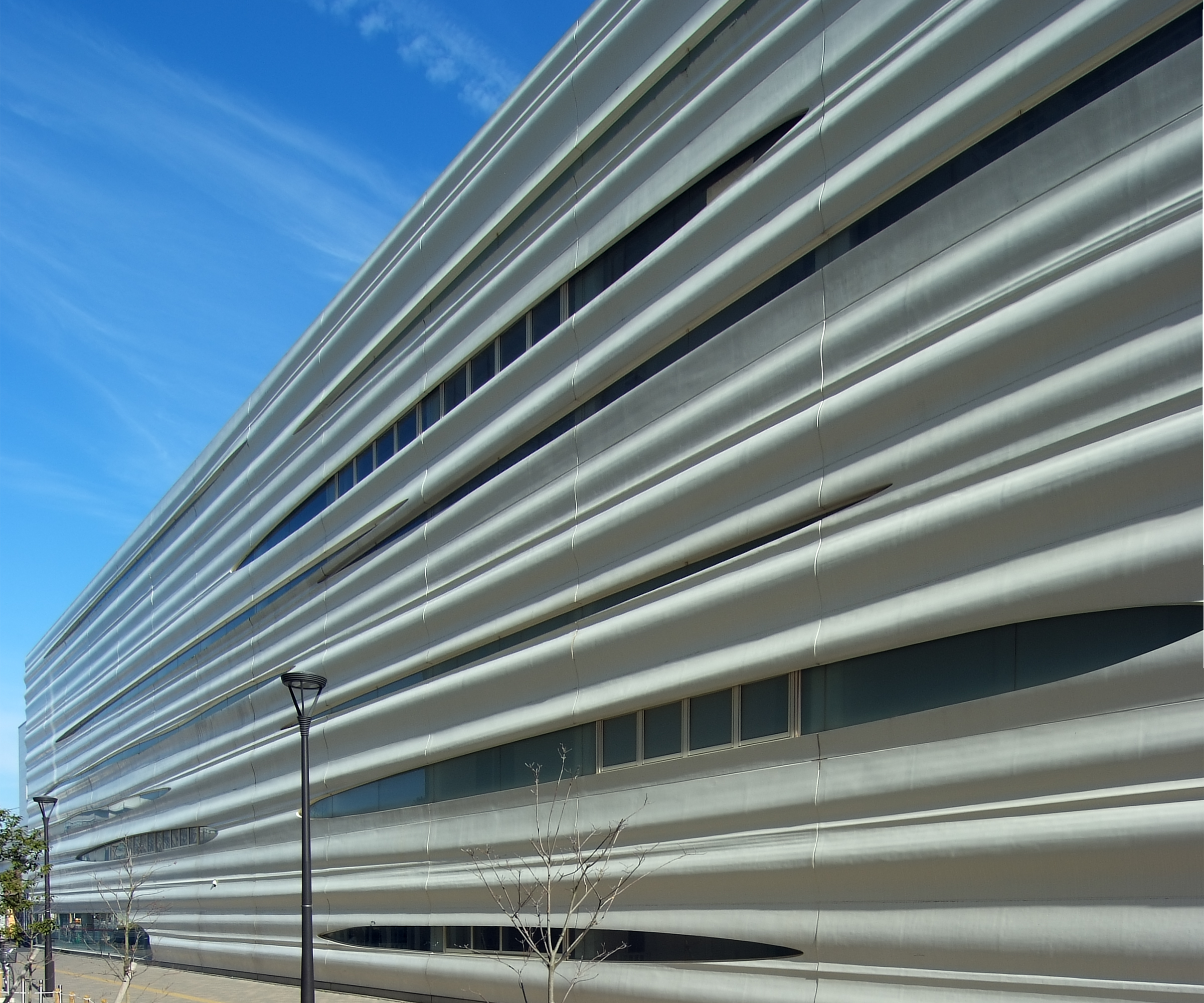 Kashiwanoha-campus Station, at Kashiwa Chiba Japan, design by Makoto Watanabe in 2004.